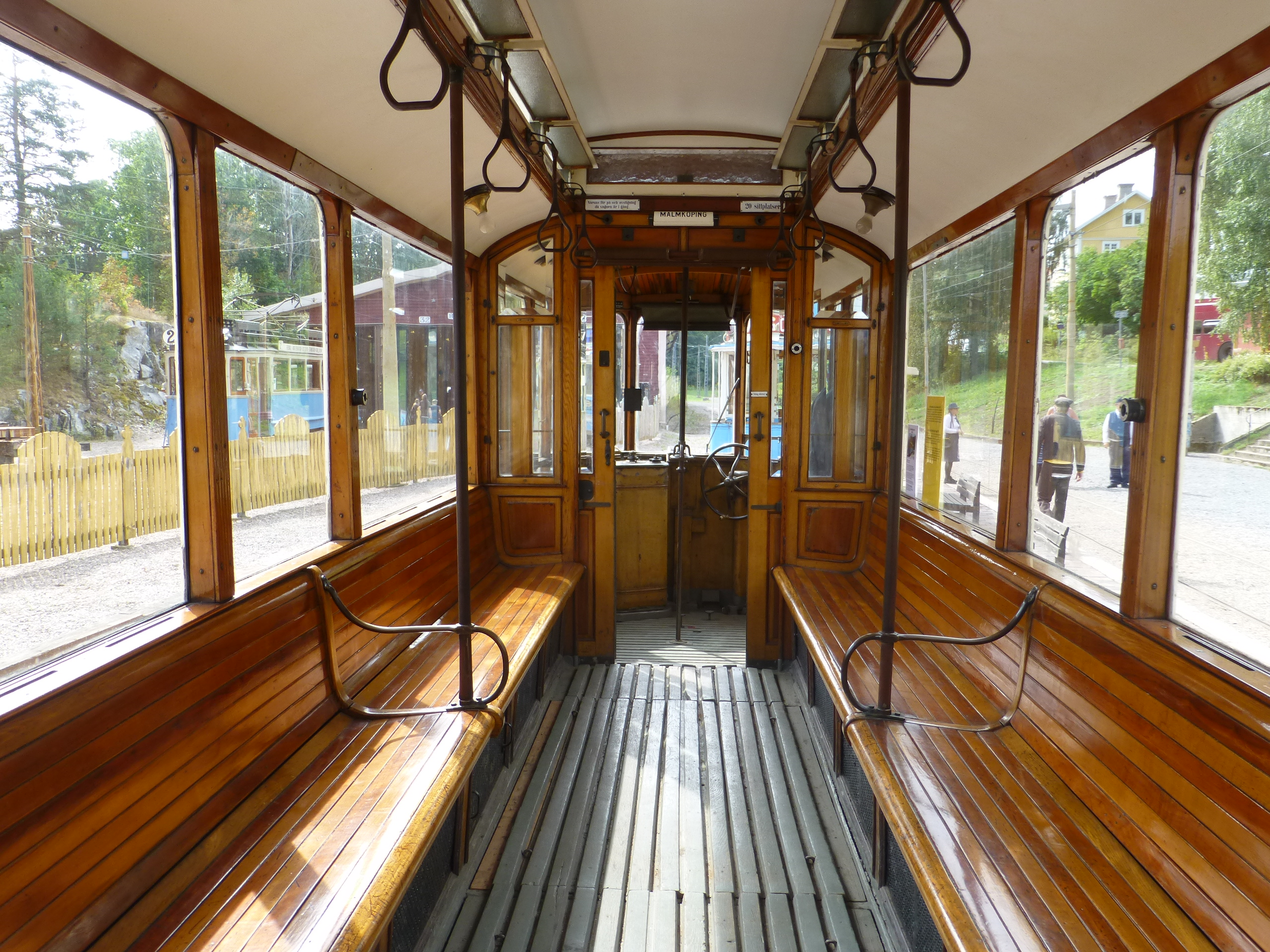 Old tram from Göteborg GS M20 190 at Museispårvägen Malmköping in Sweden.